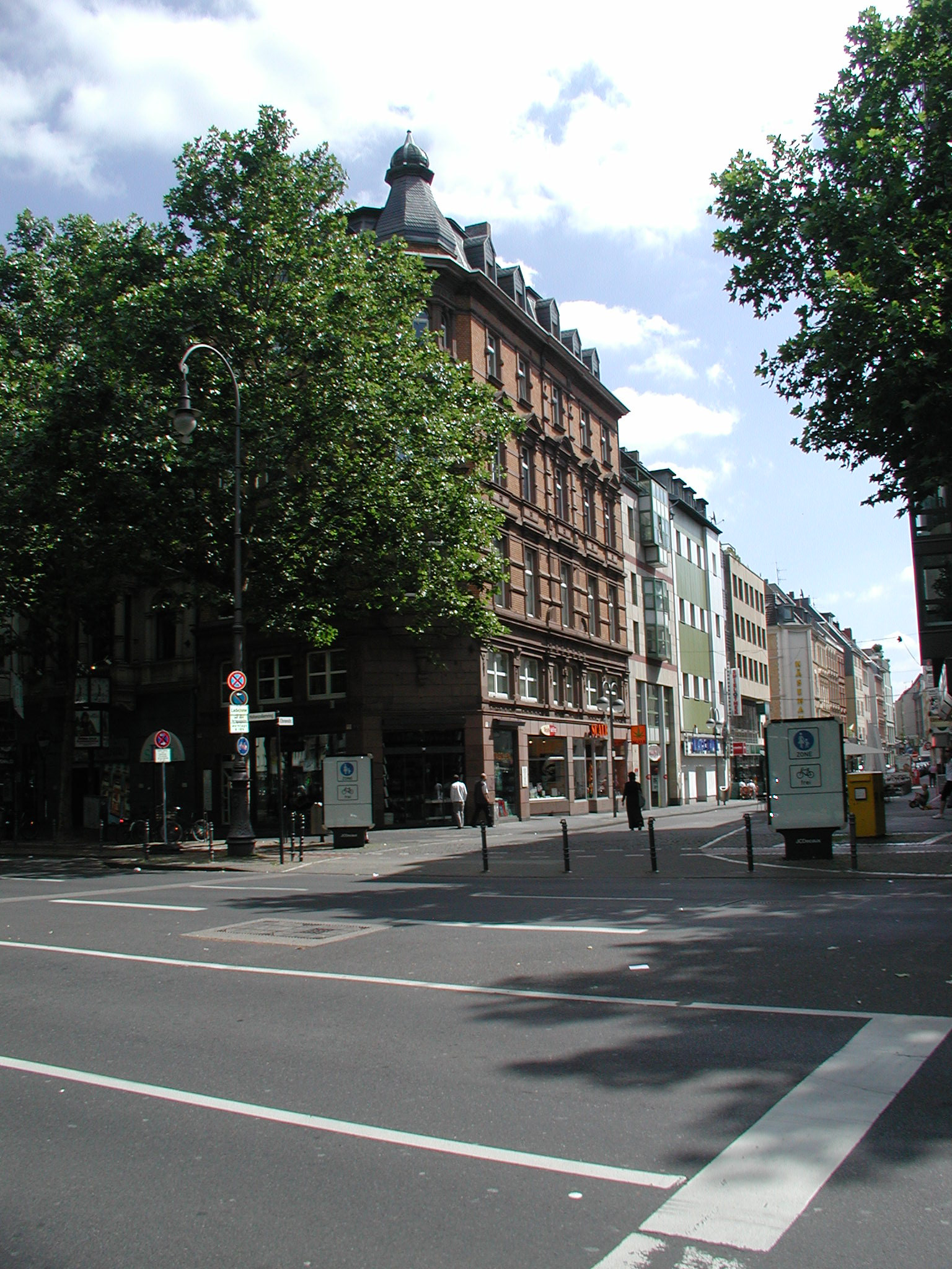 Cologne, Hohenzollernring / Ehrenstraße